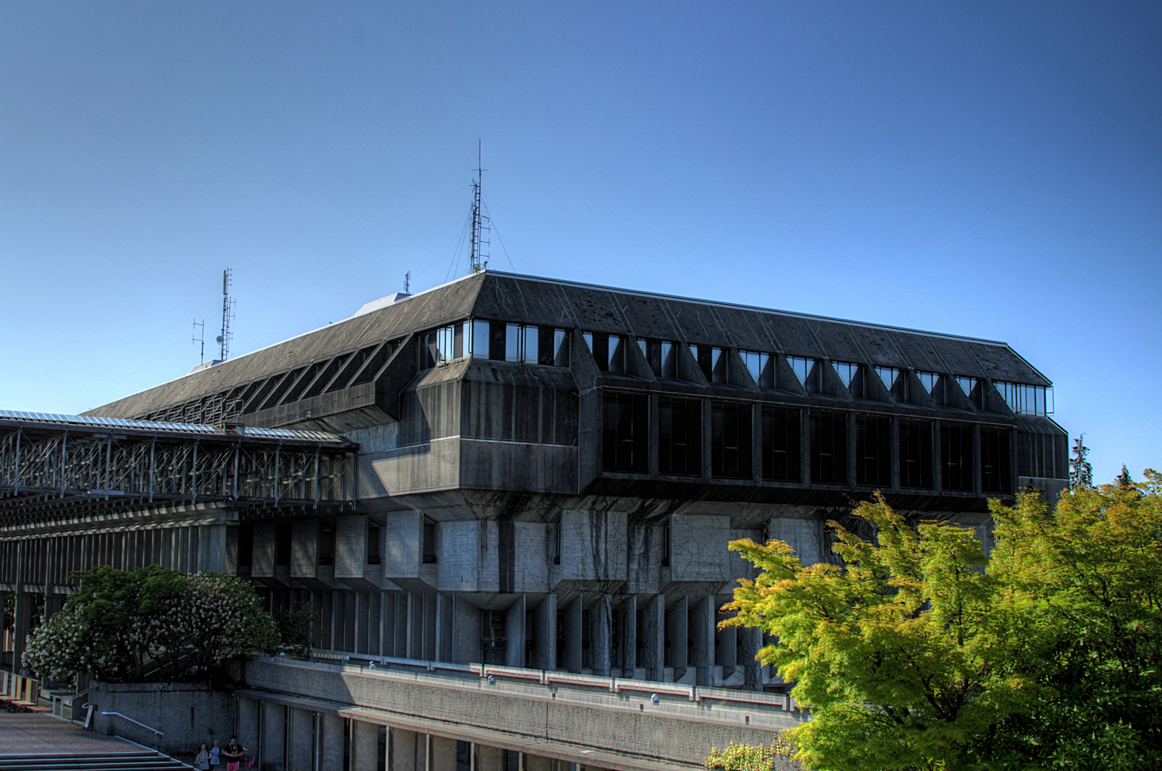 Library, Simon Fraser University, Burnaby, British Columbia, Canada.